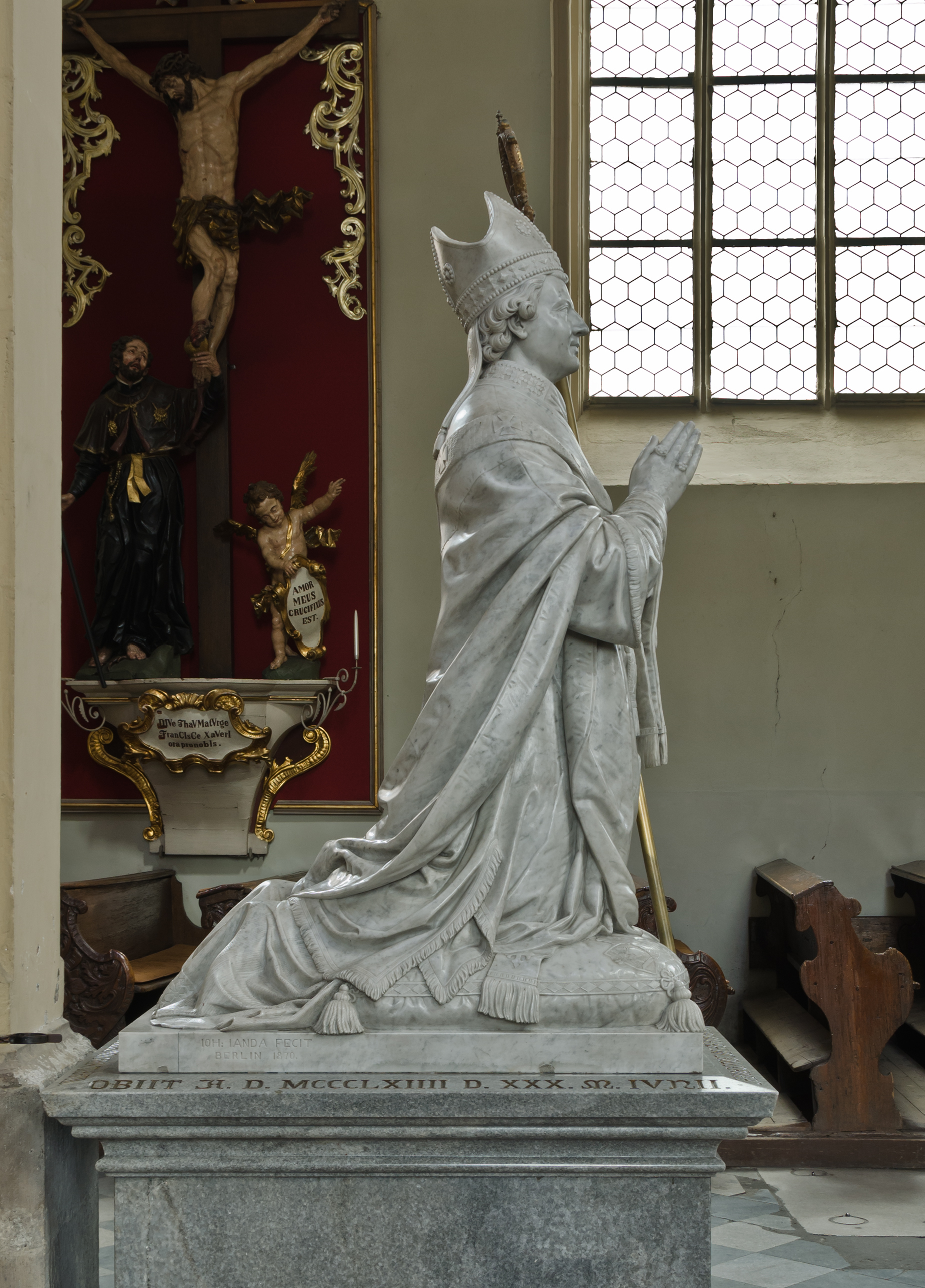 Arnošt from Pardubic monument, in Church of the Assumption in Kłodzko